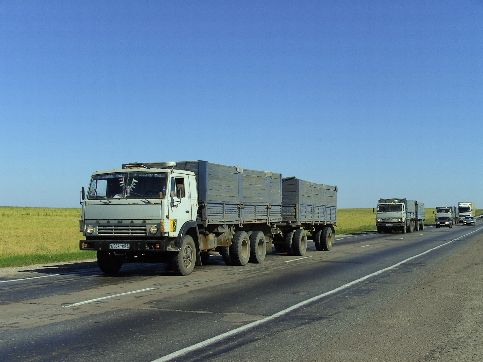 Kamaz-trucks with a full-trailer in Volgograd Oblast, Russia.